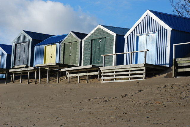 Cytiau Glan y Môr Abersoch Beach Huts The line of huts on the south beach contains some valuable property. In 2006 one sold at auction for £68,000